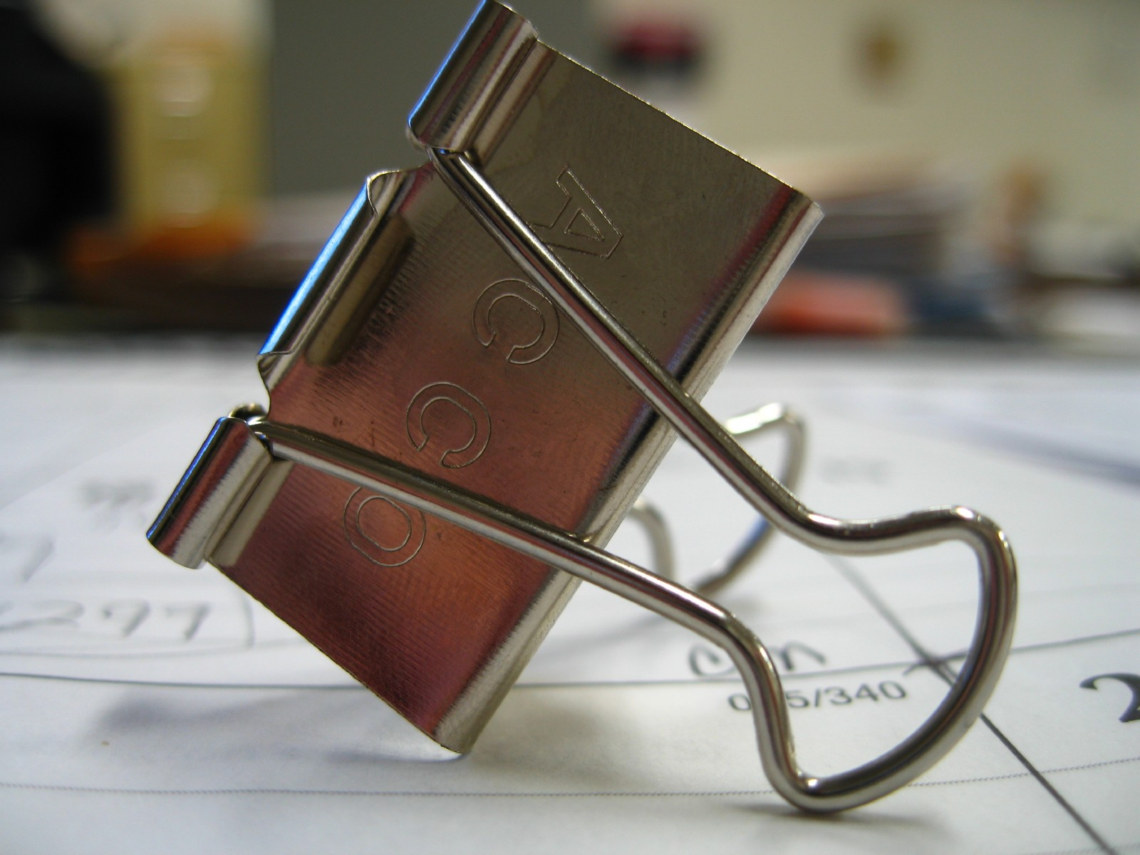 Binder clip. Took picture myself while bored at work. Original can be found on my homepage at the following